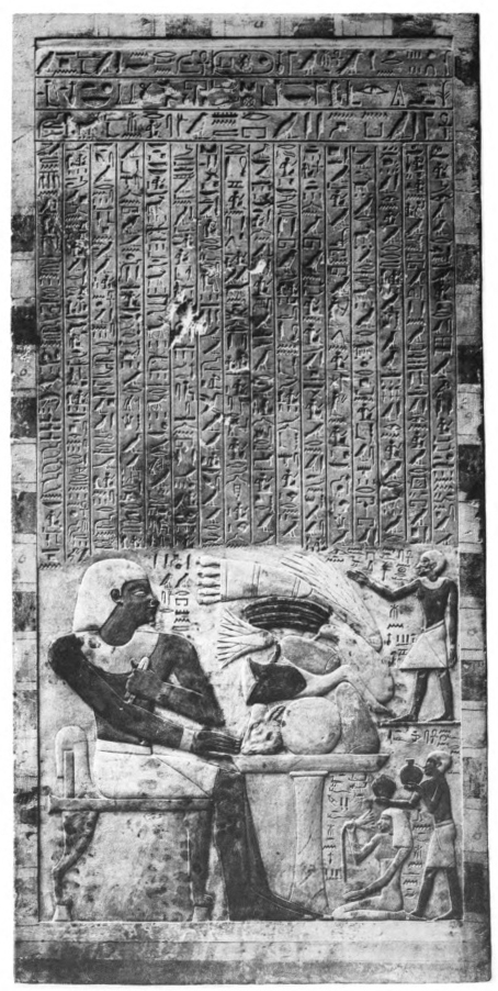 The Stela of Menthu-Weser, Plate I: Egyptian hieroglyphics above seated figures: identified in source text as belonging to Metropolitan Museum of Art, accession number 12.184